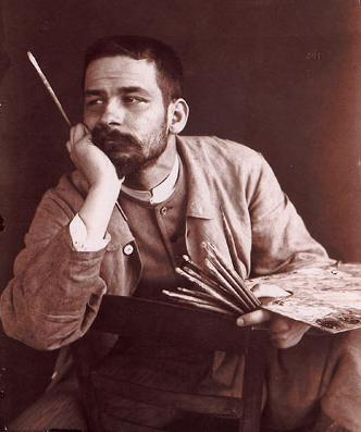 Henri Bellery-Desfontaines (1867-1909) was a French Art Nouveau painter, decorator and illustrator of posters, lithographs, tapestries, furniture, bank bills, etc.